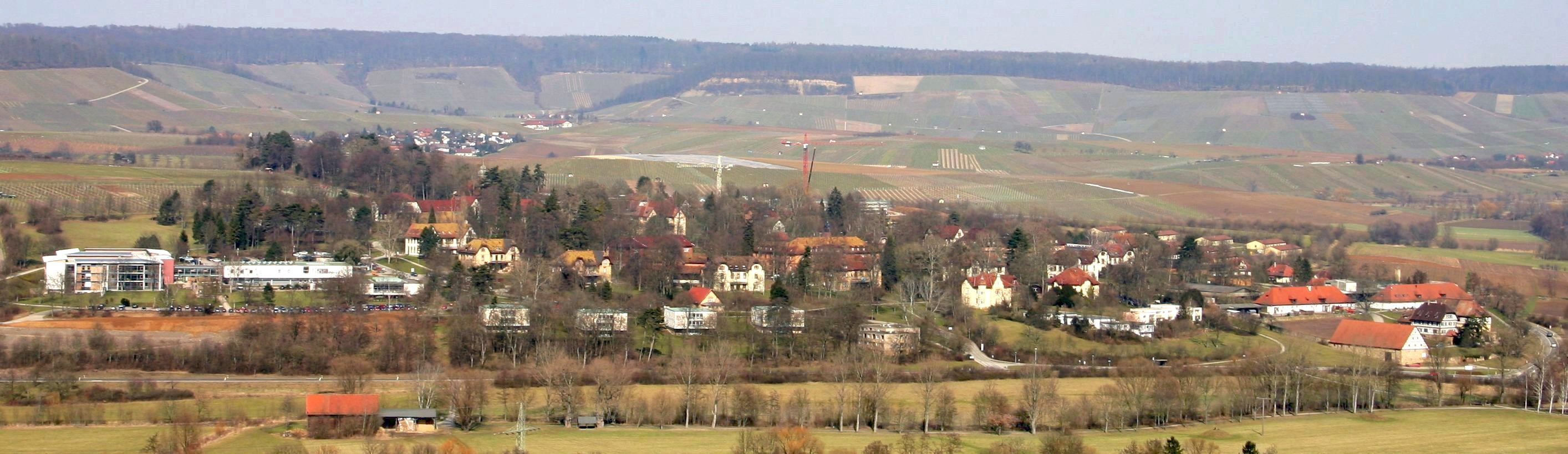 The Klinikum am Weissenhof hospital in Weinsberg as seen from the Weibertreu castle ruin